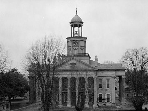 Warren County Courthouse, Grove Street, Vicksburg (Warren County, Mississippi) (cropped). Image courtesy of Historic American Buildings Survey—HABS.